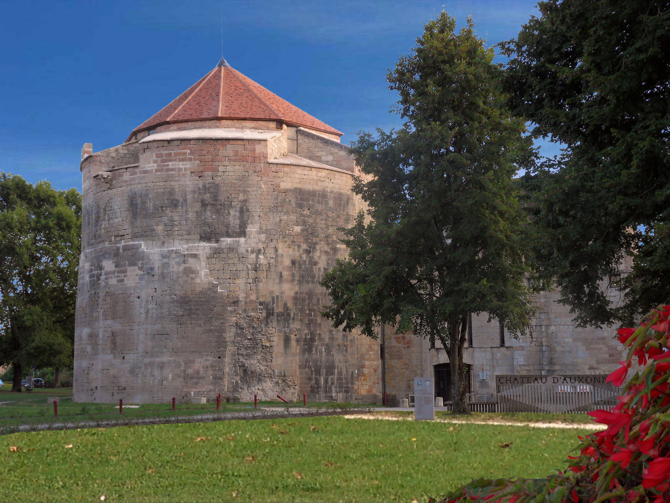 Auxonne - Château Louis XI - Tour Notre-Dame, Burgundy, FRANCE